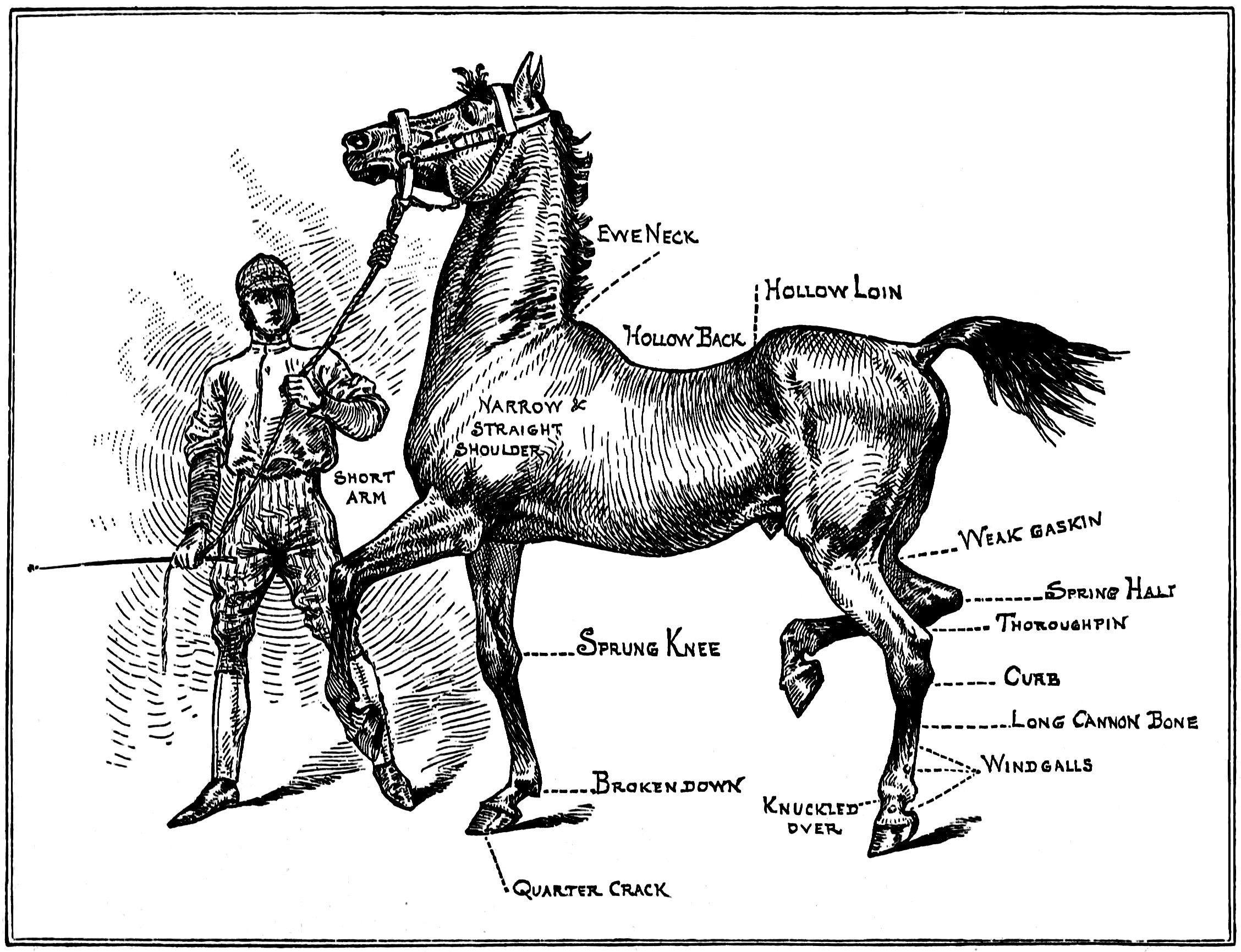 Image from book Horsemanship for Women by Theodore Hoe Mead